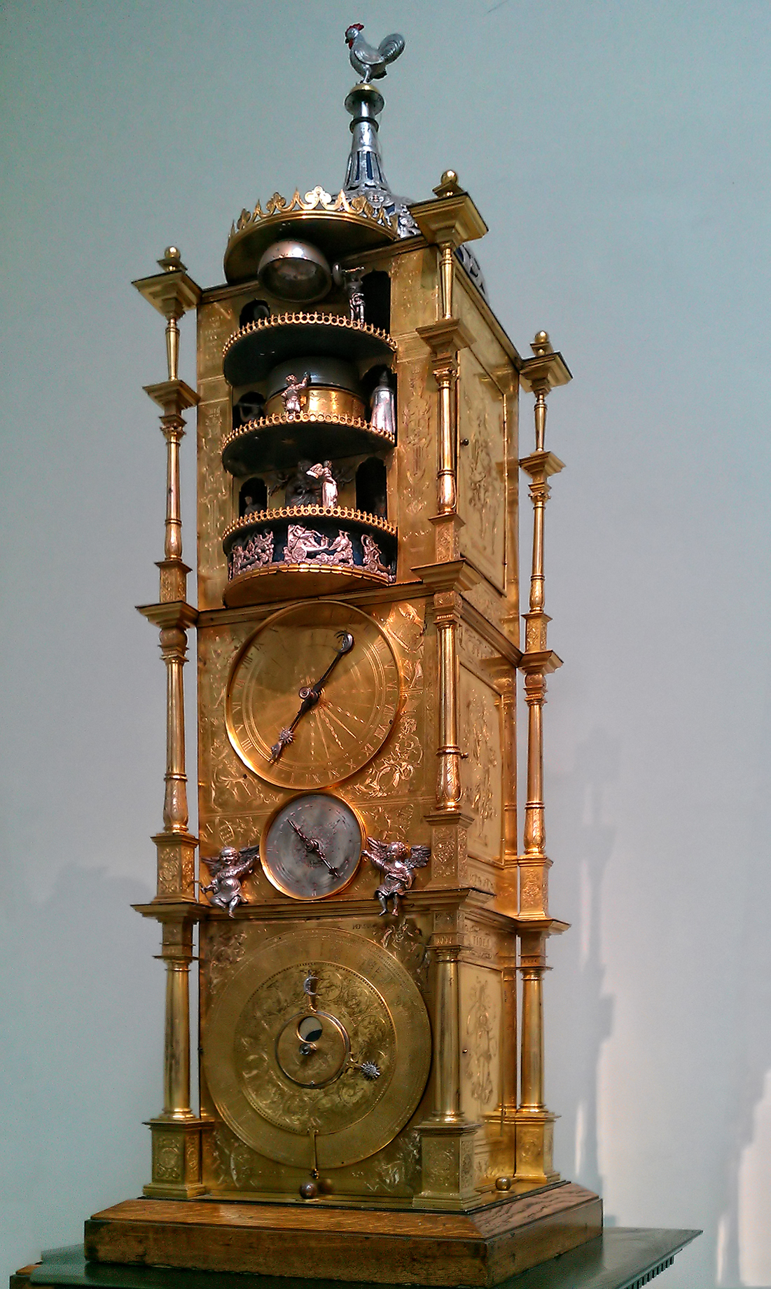 Carillon Clock with Automata, by Isaac Habrecht - British Museum